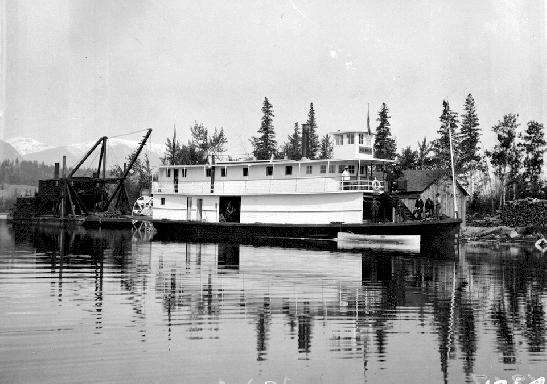 Duchess (sternwheel steamboat) and Mudlark (clamshell dredge) on Columbia River in British Columbia, 1898